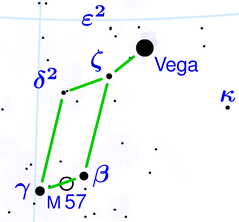 This illustration shows the location of the star Vega within the constellation of Lyra. The source for the background map is the illustration Image:Lyra constellation map.png by Torsten Bronger. The later is licensed under GNU Free Documentation License, Version 1.2.